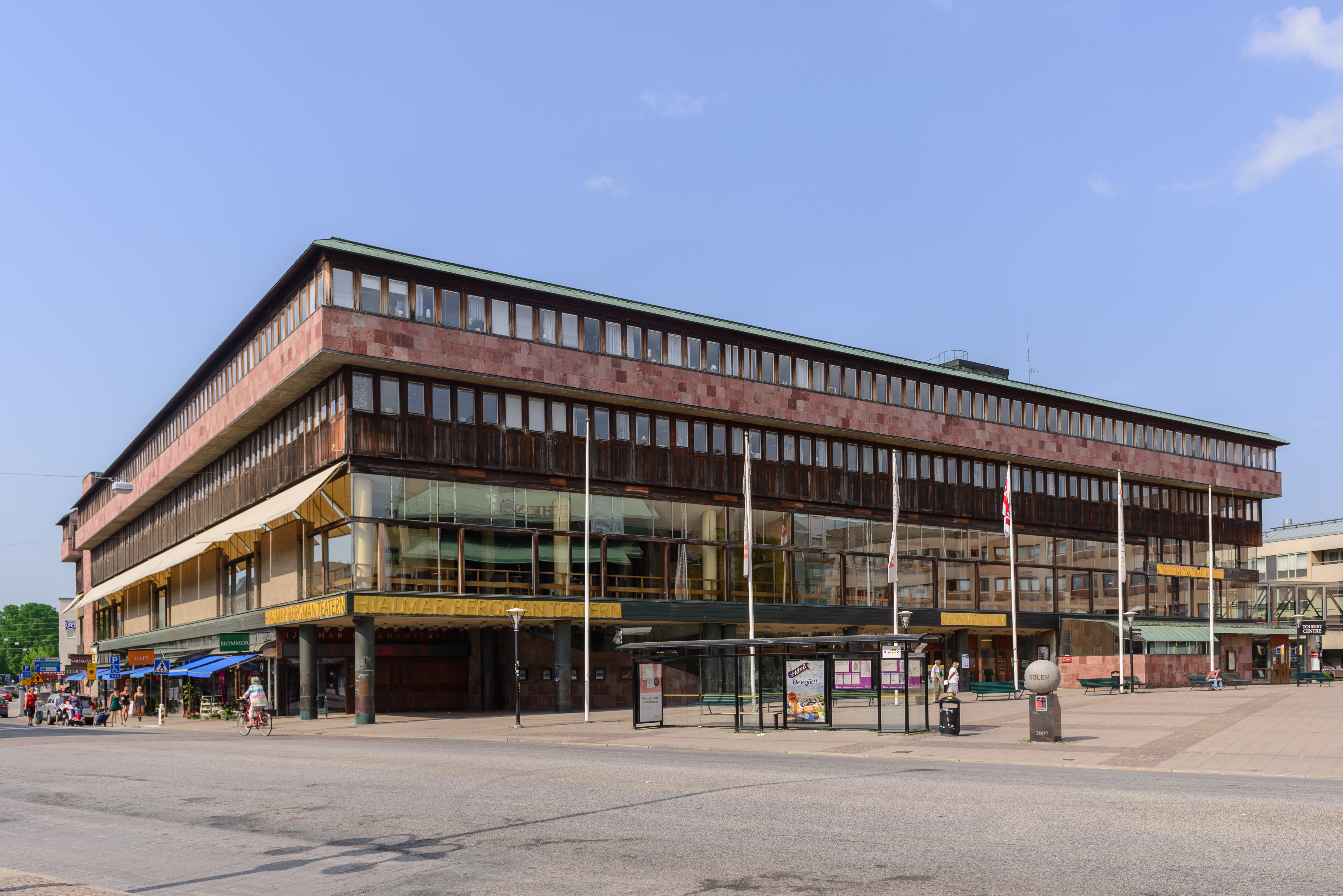 Medborgarhuset. Community center in Örebro (Sweden) built 1957-65. Architects: Erik och Tore Ahlsén.